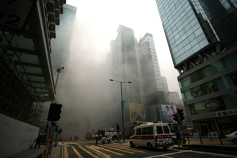 HK Mong Kok Fire on 20080810 嘉禾大廈大火